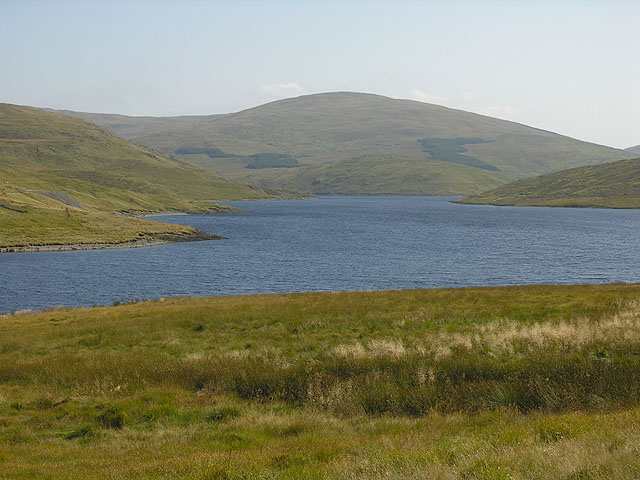 View towards Y Garn A telephoto shot looking down Nant-y-moch reservoir to the hill of Y Garn beyond.